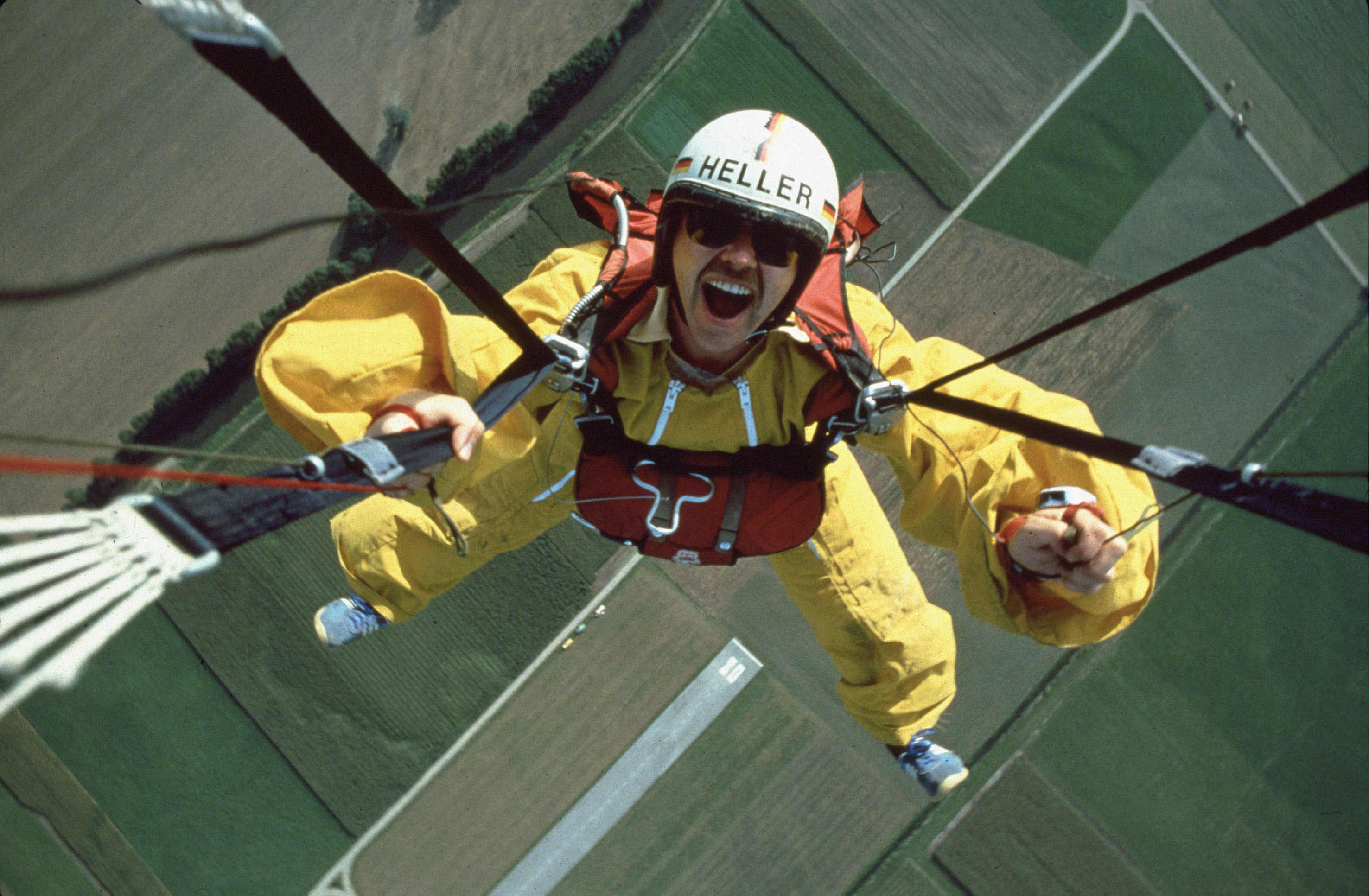 After two malfunctions, skydiver and photographer Klaus Heller finally managed this shot from the canopy view using a pulley.